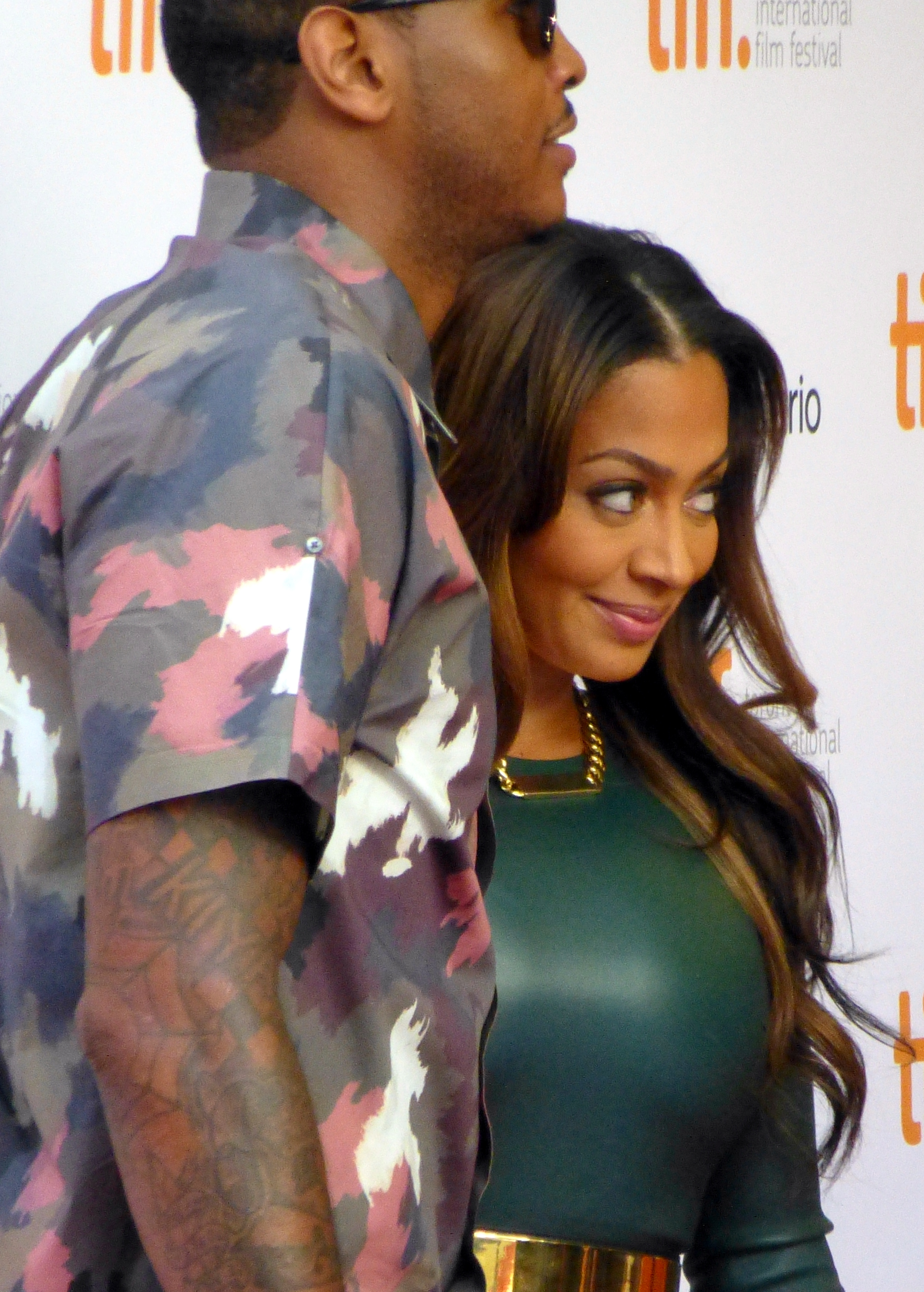 Carmelo Anthony and La La Anthony at the premiere of 12 Years a Slave, 2013 Toronto Film Festival